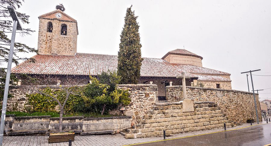 Iglesia de la Purísima Concepción de Bustarviejo.